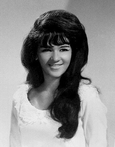 Publicity photo of the Ronettes. Croped to show Nedra Talley, the woman on the left Publicity photo of the Ronettes.